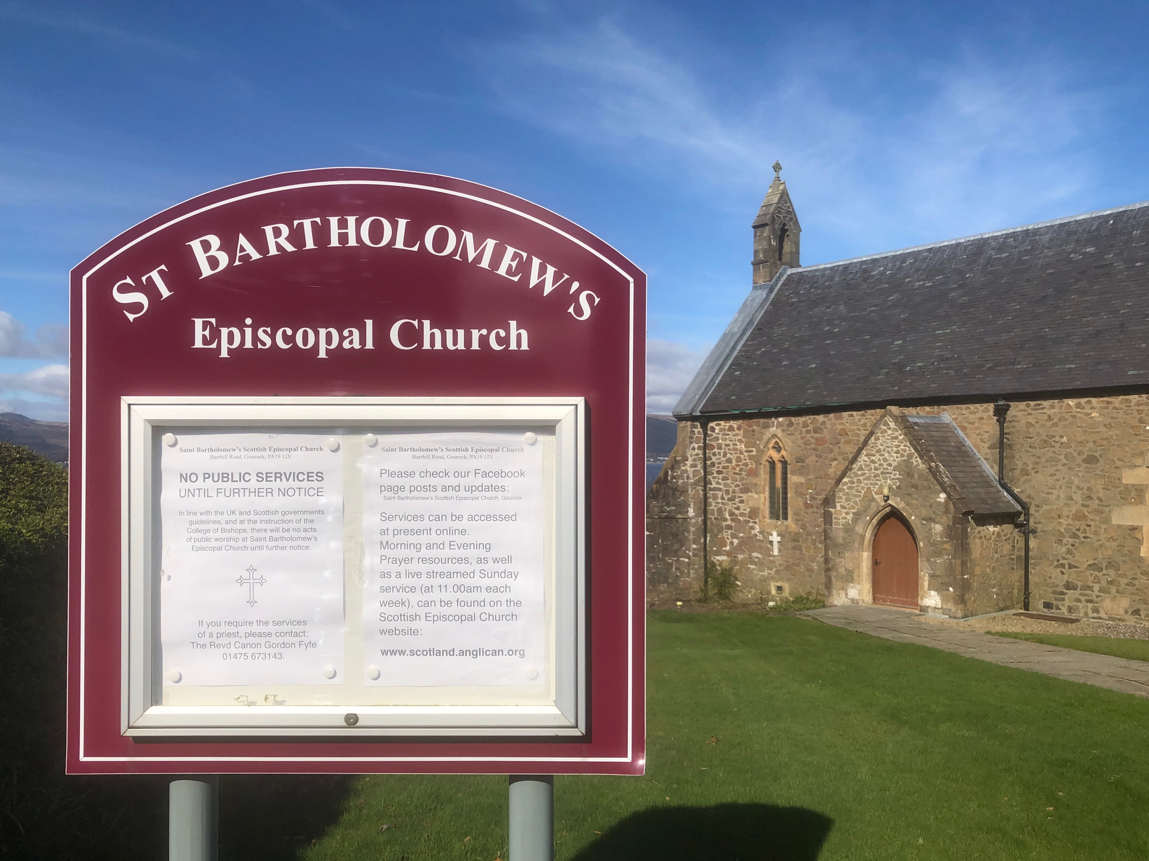 St Bartholomew's Scottish Episcopal Church, Gourock, church sign for COVID closure: Walker, Donald (17 March 2020). Coronavirus – Suspension of Church Services. The Scottish Episcopal Church.